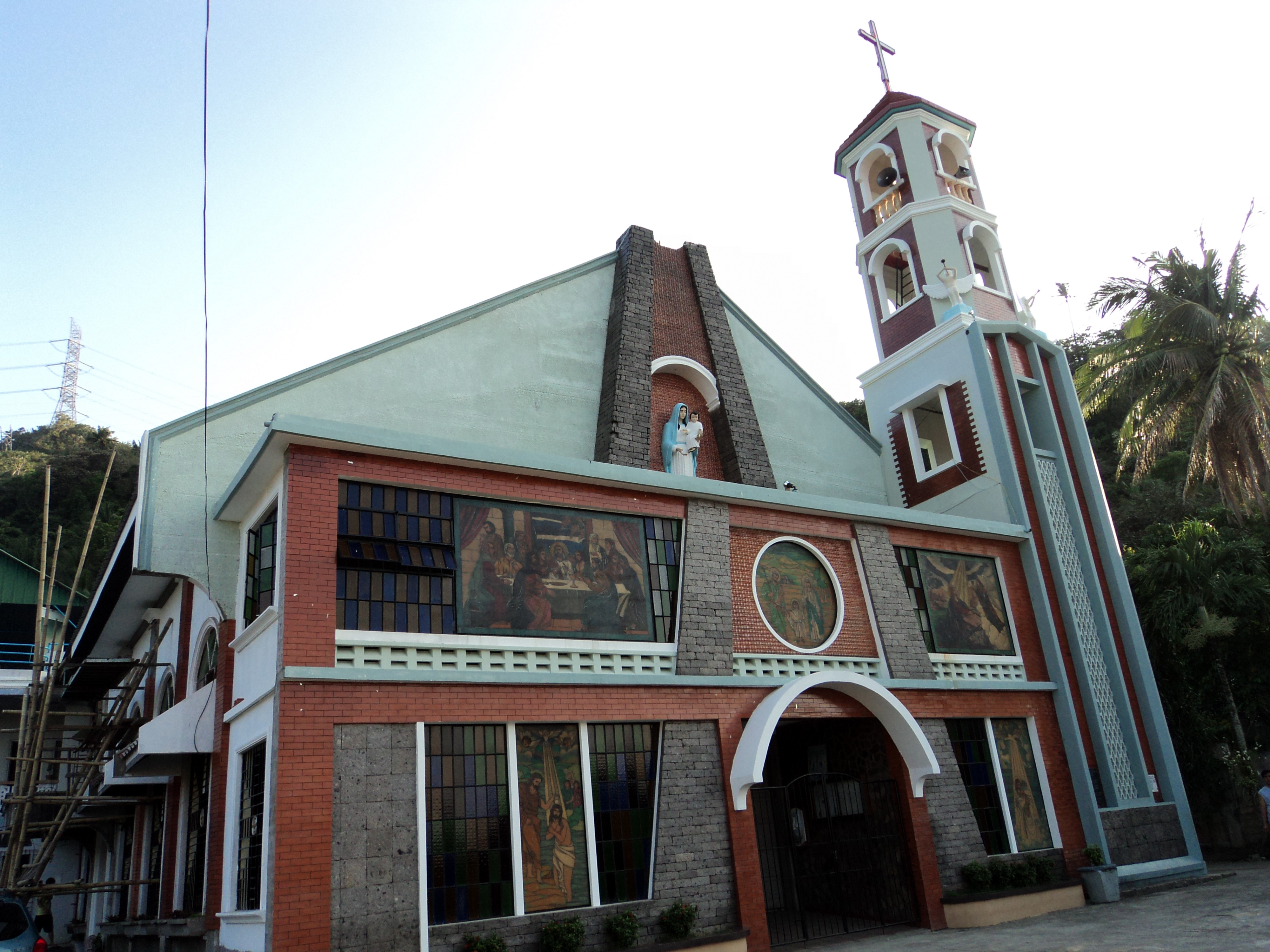 The Most Holy Rosary Parish in Plaridel, Quezon